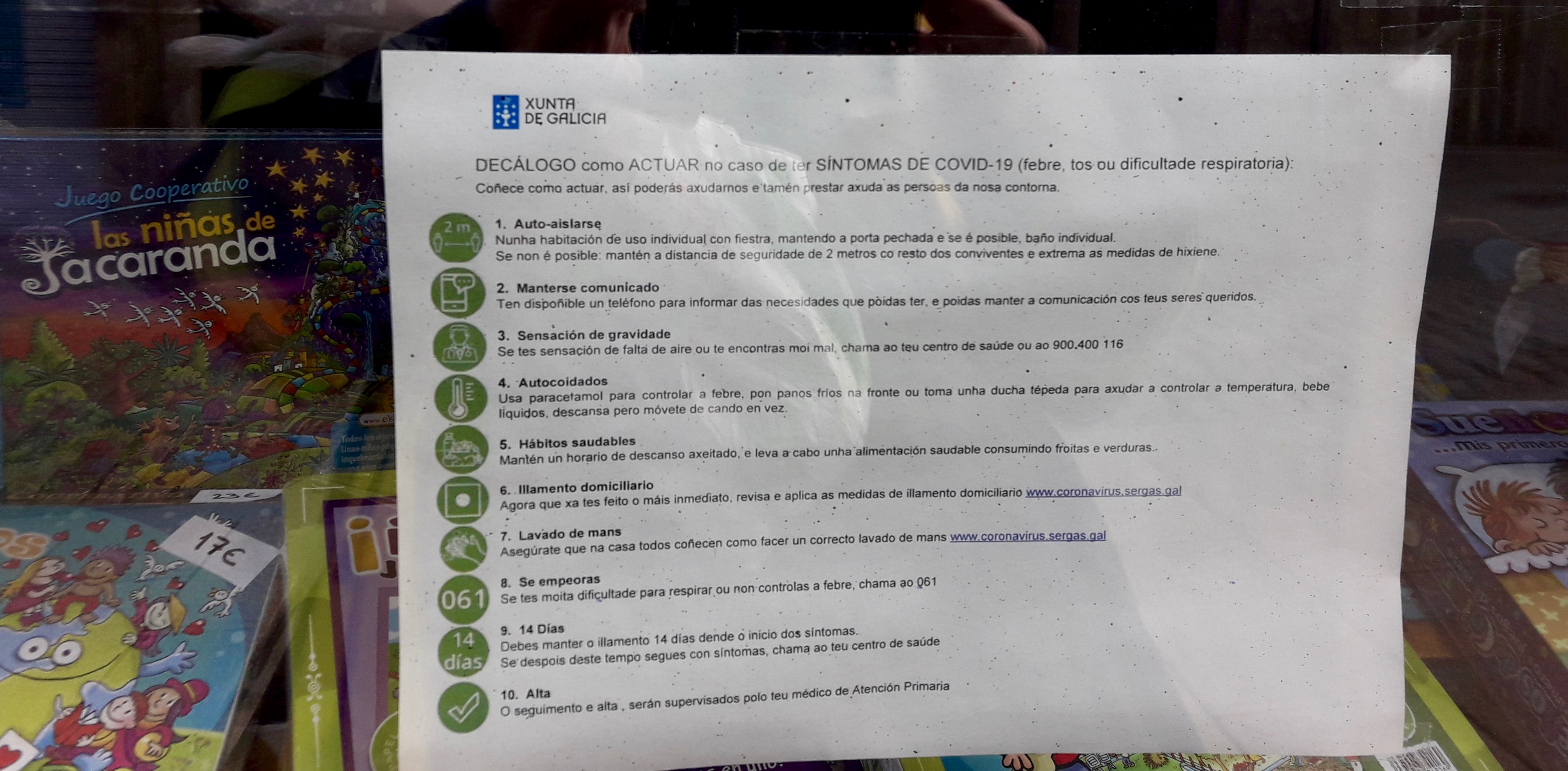 Compostela